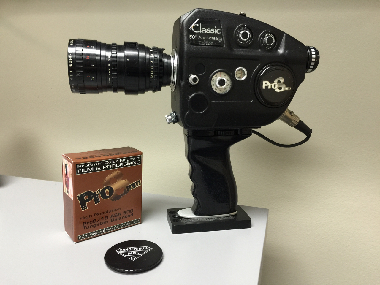 4008 Modified for Max8 , Crystal Sync and new Lithium Power Grip